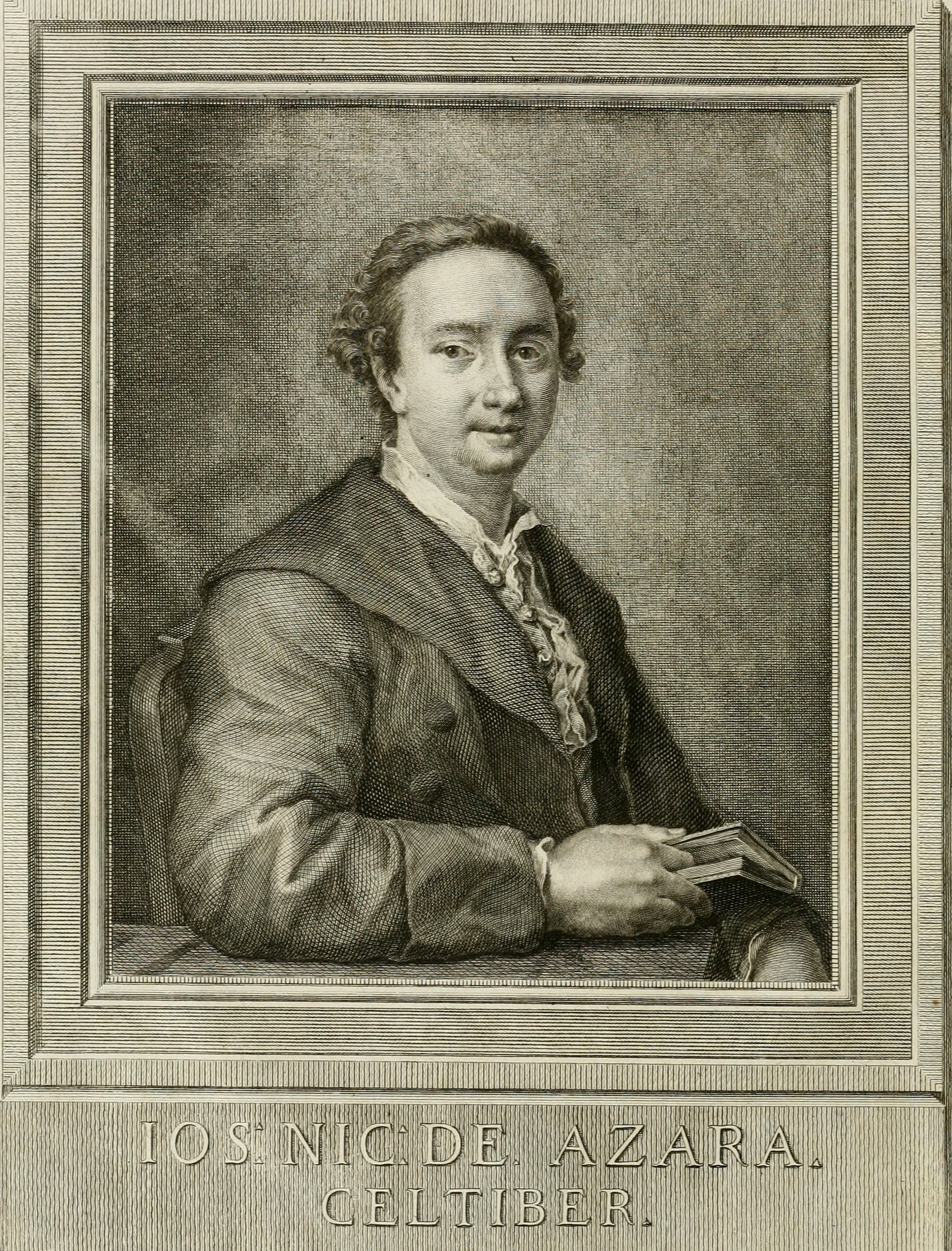 Title: Storia delle arti del disegno presso gli antichi Year: 1783 (1780s) Authors: Winckelmann, Johann Joachim, 1717-1768 Fèa, Carlo, 1753-1836 Pagliarini, Marco Bossi, Giacomo, 1750-1804 Subjects: Art, Ancient Art, Greek Publisher: In Roma : Dalla stamperia Pagliarini Text Appearing Before Image: ' Text Appearing After Image: ^^.X^^^^.,^.,^,,,. ^,,^,,„ .Jl/^.„^, ^/ J^^ -Z?^zi^ ■rci^A JJom^ yVìd- STORIA DELLE ARTI DEL DISEGNO PRESSO GLI ANTICHI D I GIOVANNI WINKELMANN Tradotta dal Tedefco E IN QUESTA EDIZIONE CORRETTA E AUMENTATAD A L L A B A T E CARLO FÉ A GIURECONSULTO TOMO SECONDO.storiadelleartid02winc